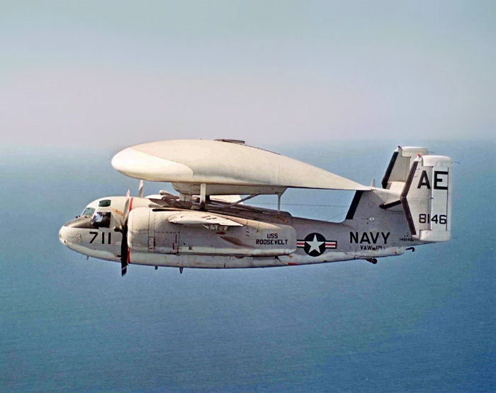 A Grumman E-1B Tracer (BuNo. 148146) of Carrier Airborne Early Warning Squadron 121 (VAW-121) "Griffins" Det.42 in 1971. BuNo. 148146 was accepted by the U.S. Navy on 30 December 1960, and subsequently served in Carrier Airborne Early Warning Squadrons (VAW) 11, 12, and 121, flying in deployed attachments on board carriers of the Atlantic and Pacific Fleets, including the USS Constellation (CVA-64), USS Wasp (CVS-18), USS Saratoga (CVA-60), and the USS Franklin D. Roosevelt (CVA-42). It arrived at the National Museum of Naval Aviation at Pensacola, Florida (USA) in 1975 still in the markings of service in the latter carrier with VAW-121. VAW-121 was stationed aboard the Franklin D. Roosevelt as part of Attack Carrier Air Wing Six (CVW-6) from 1970 to 1975.